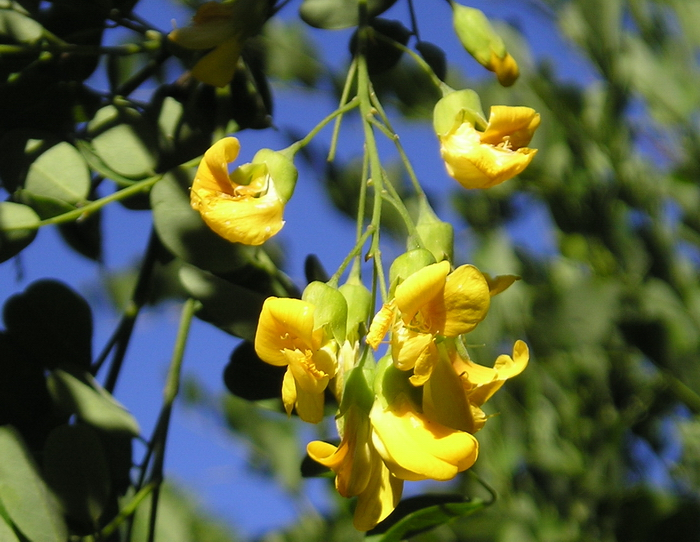 Natal laburnum in Bedford, Eastern Cape